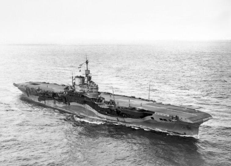 HMS Formidable, underway in coastal waters.